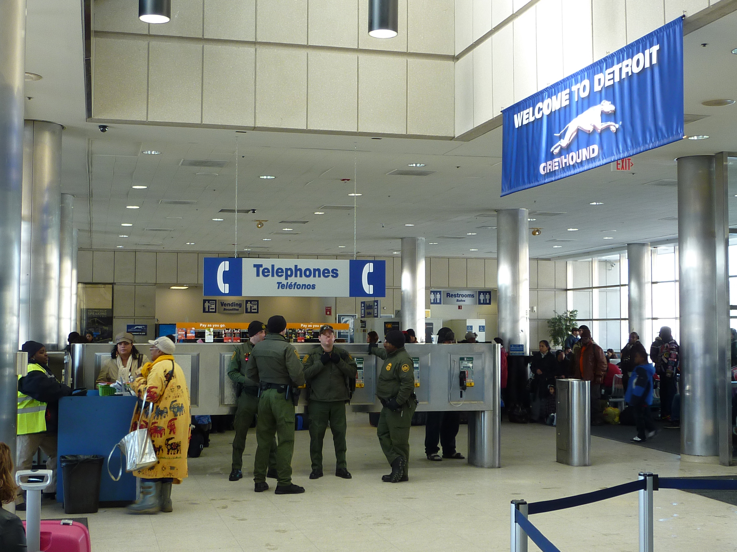 Inside the Greyhoud Bus Station in Detroit, Michigan. The people in green uniforms are U.S. Border Patrol Agents.